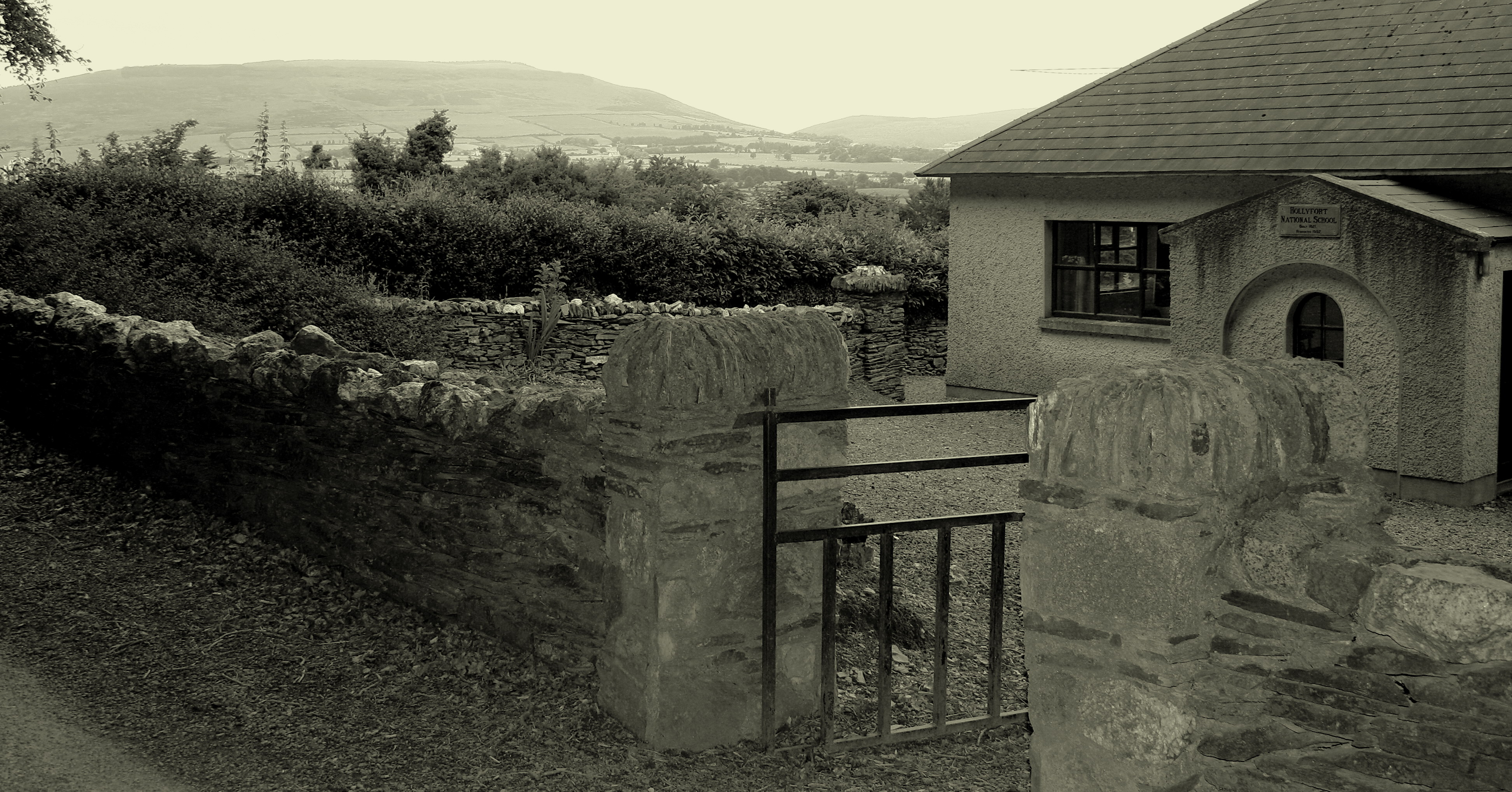 Hollyfort National School, County Weford